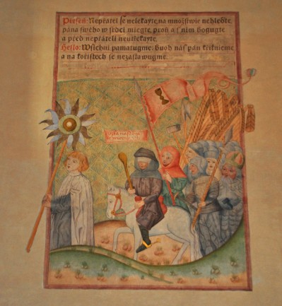 Betlémská kaple - Interior